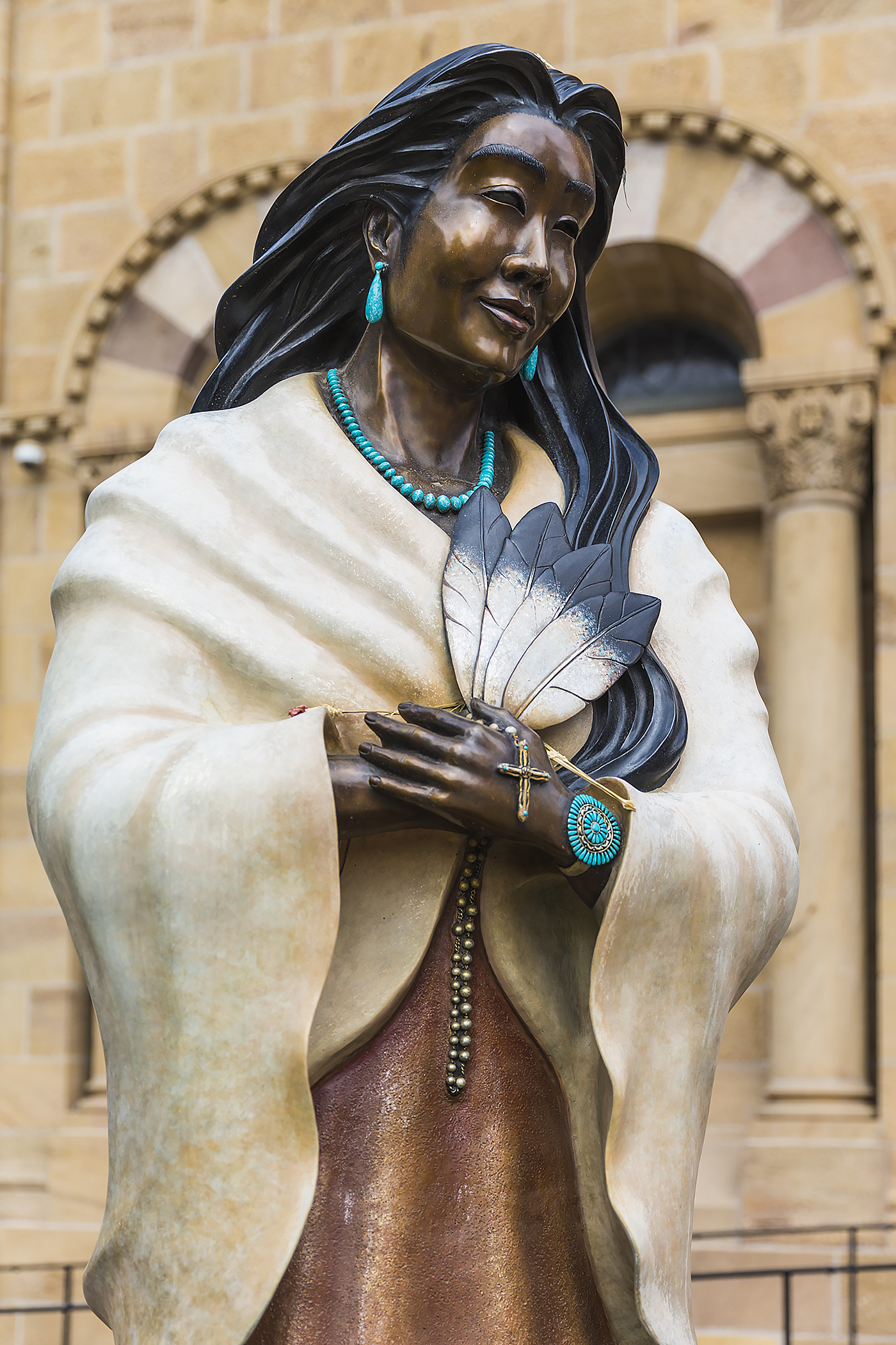 Statue of Kateri Tekakwitha Cathedral Basilica of St. Francis of Assisi, Santa Fe, NM